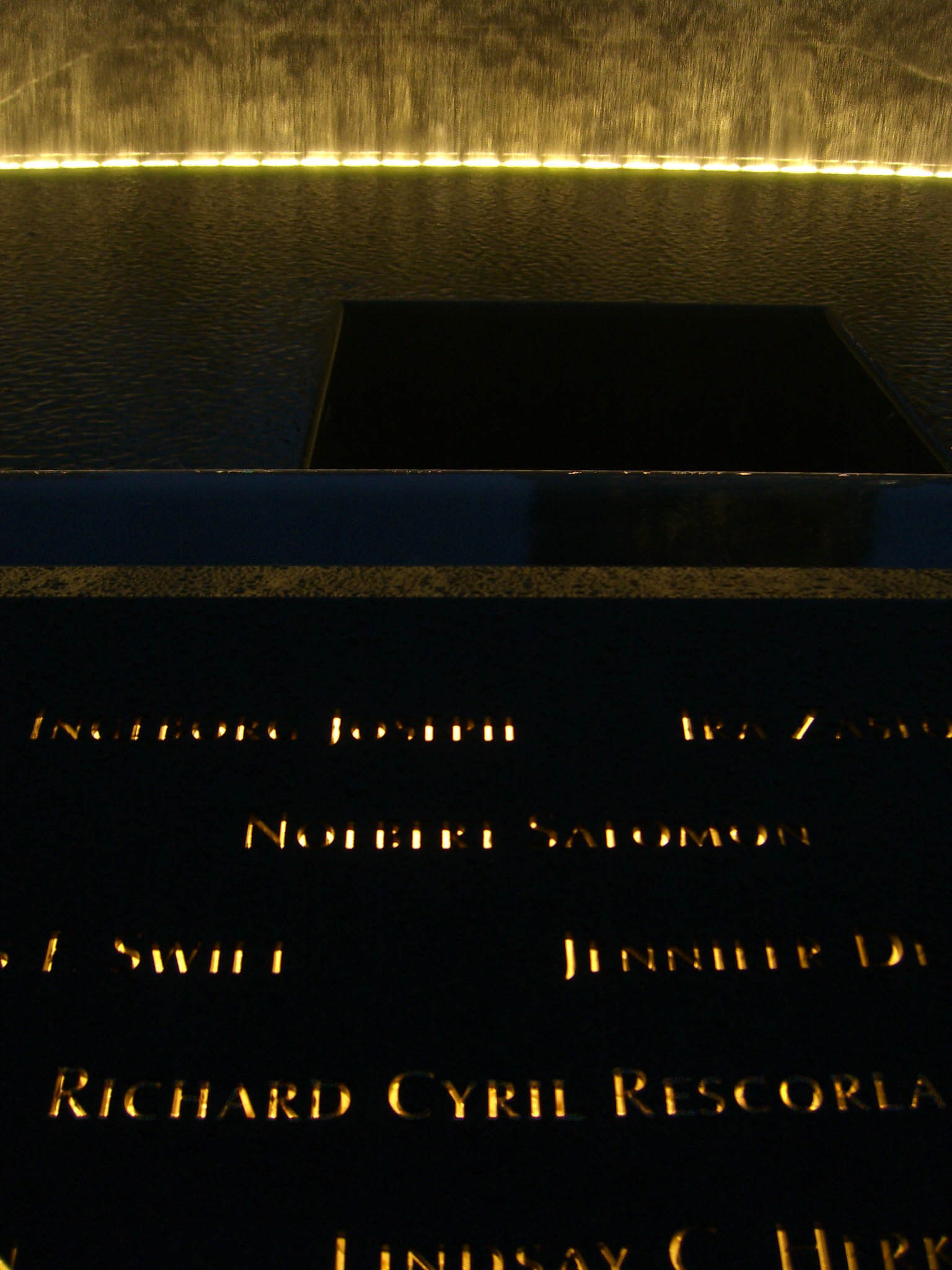 The name of Rick Rescorla is among those inscribed on bronze panel S-46 of the South Pool of the National September 11 Memorial in Manhattan, as seen on December 6, 2011. This photo was created by Luigi Novi. If you have any questions, you can contact me by sending me an email or User talk:Nightscream